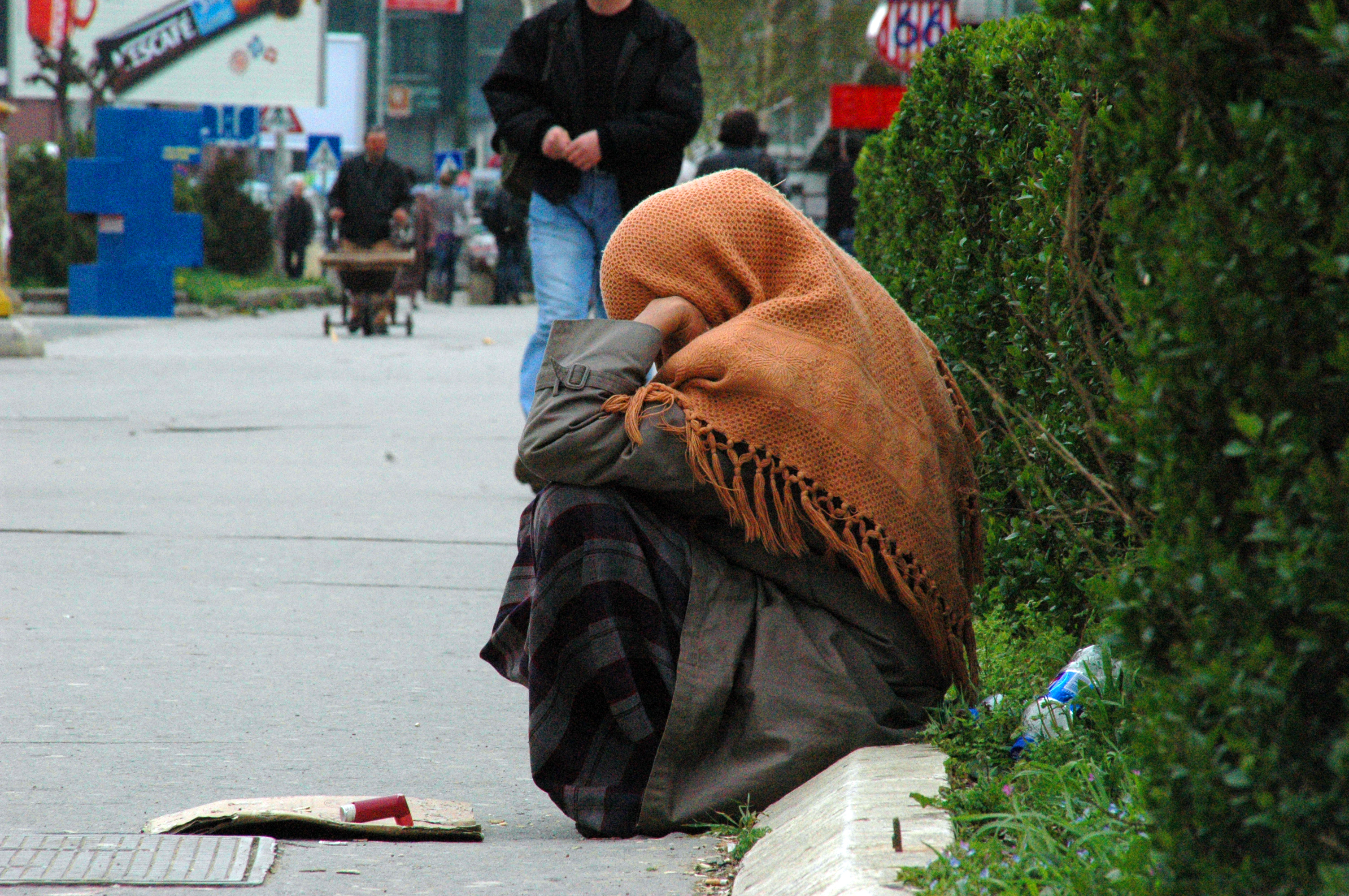 photo: Arian Selmani